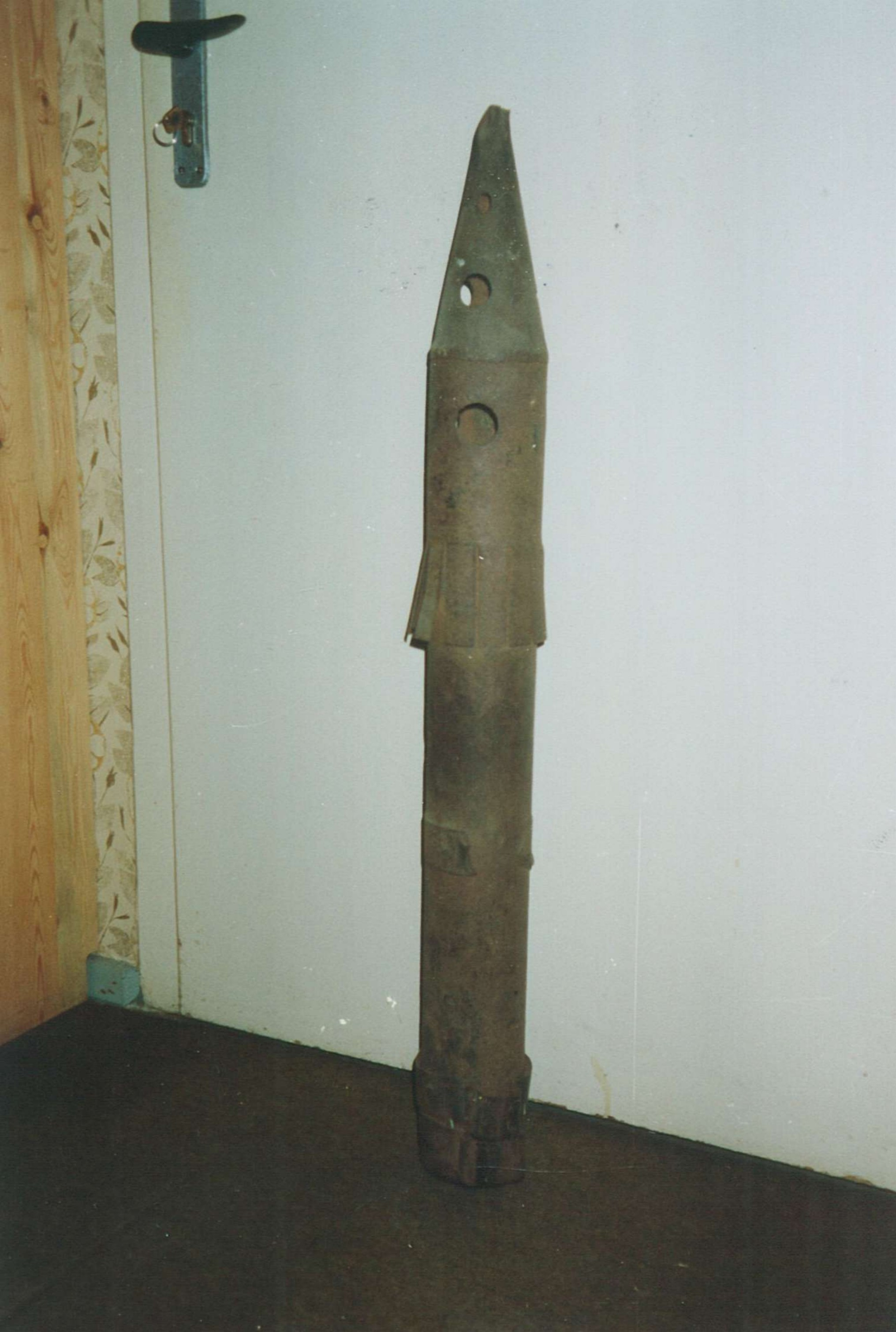 An 1813 example of a Congreve rocket in the private collection of Hr. Klause Stolze, photo taken on a visit to Leipzig